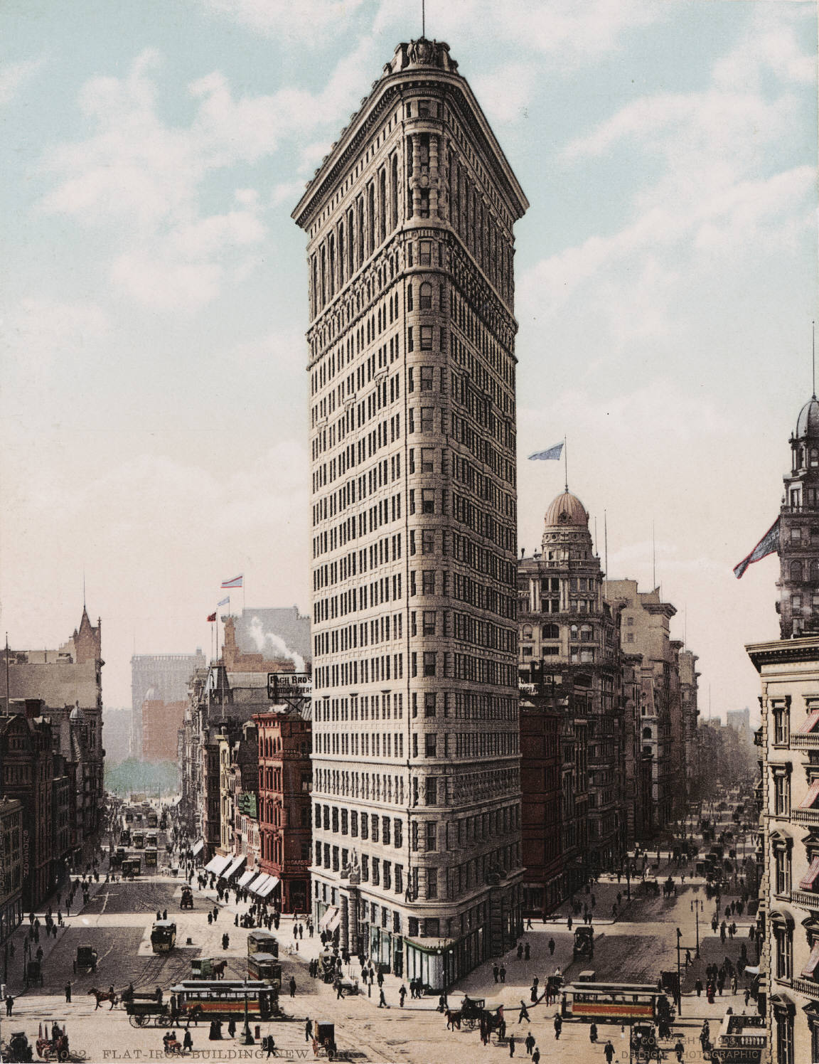 A photochrom postcard published by the Detroit Photographic Company.